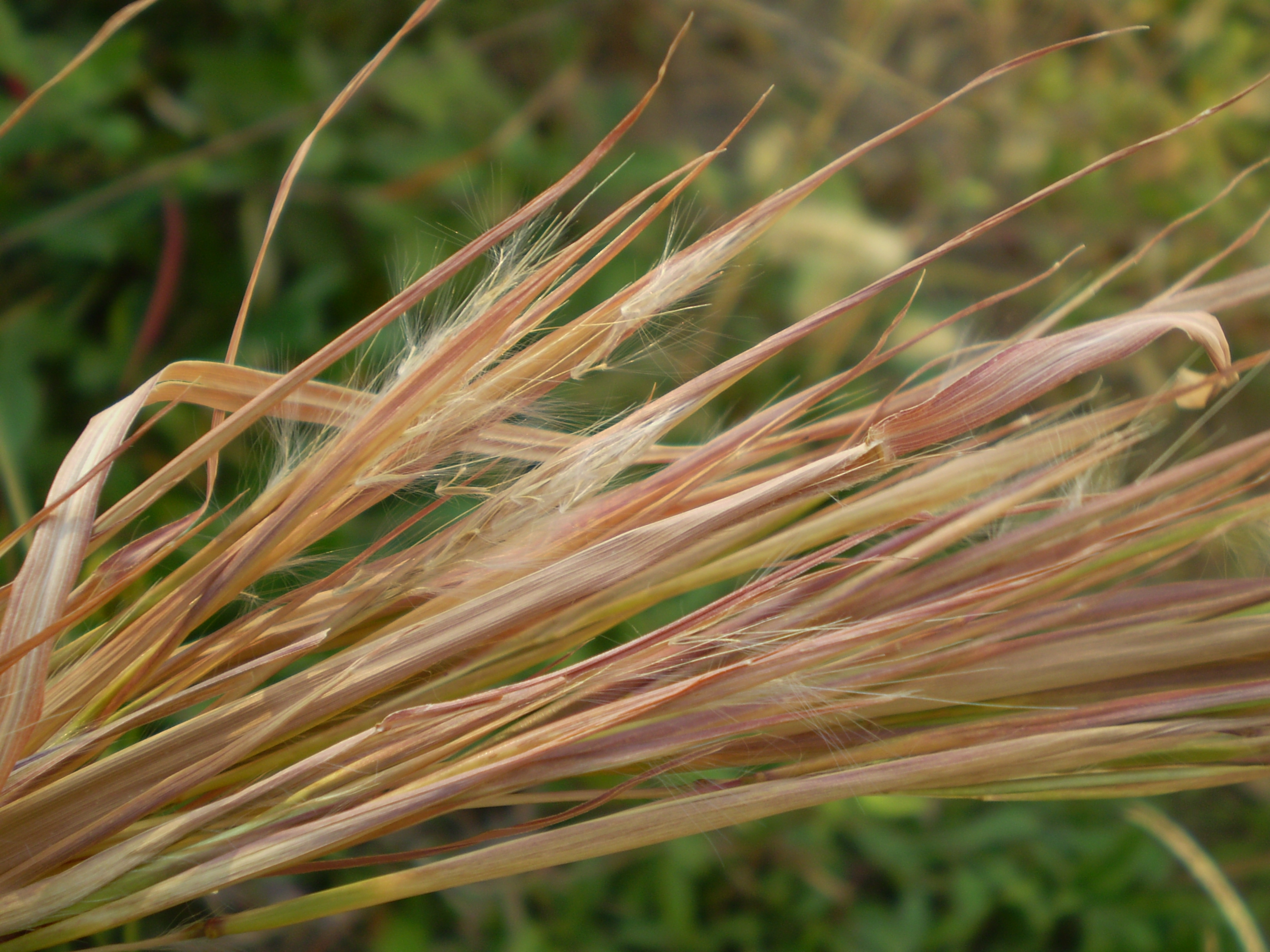 Ears of Andropogon virginicus